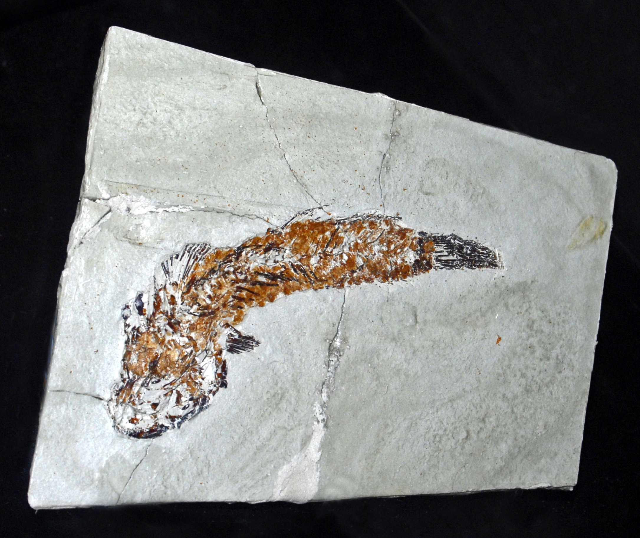 Fossil of Gobius ignotus, on display at the Museo Civico Craveri di Scienze Naturali - Bra